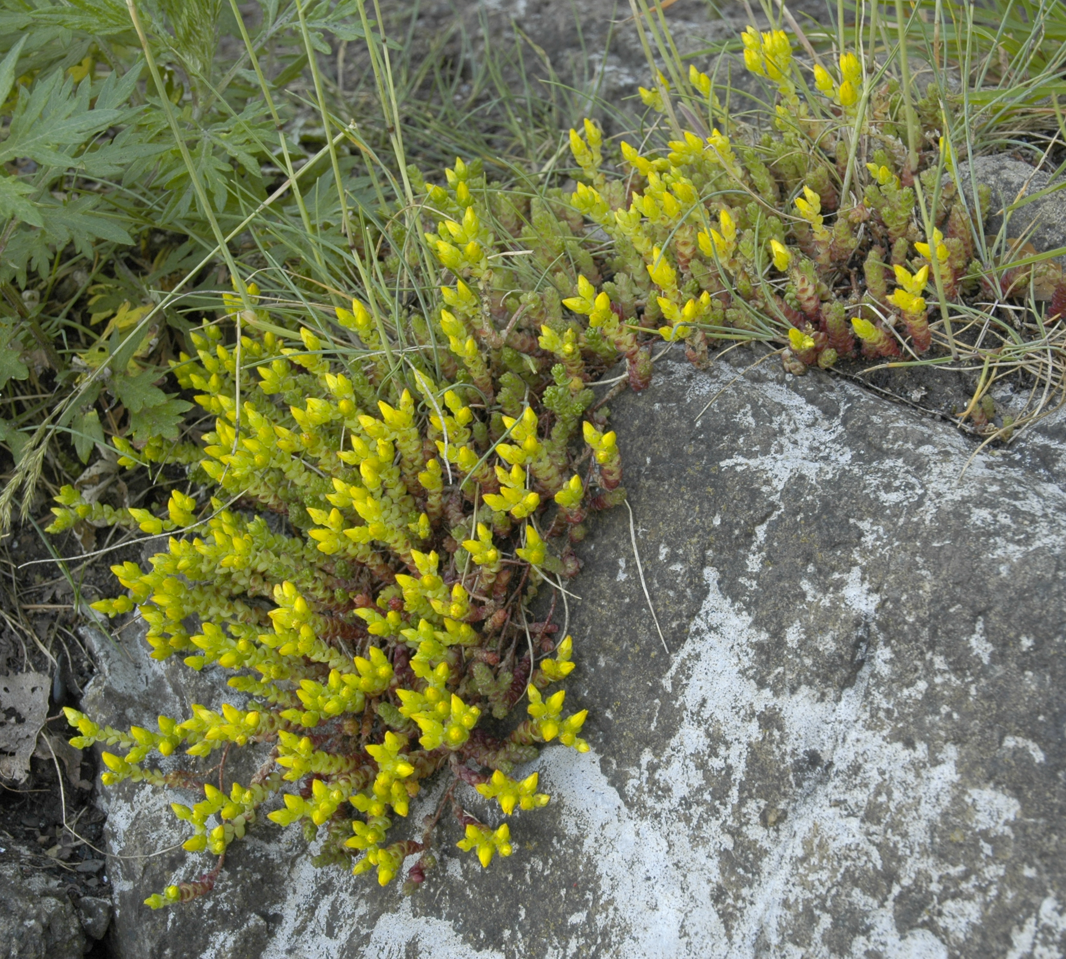 Sedum acre on a rock, in Røyken, Norway